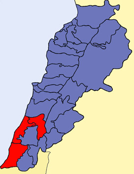 a map of the Governorate of South Lebanon